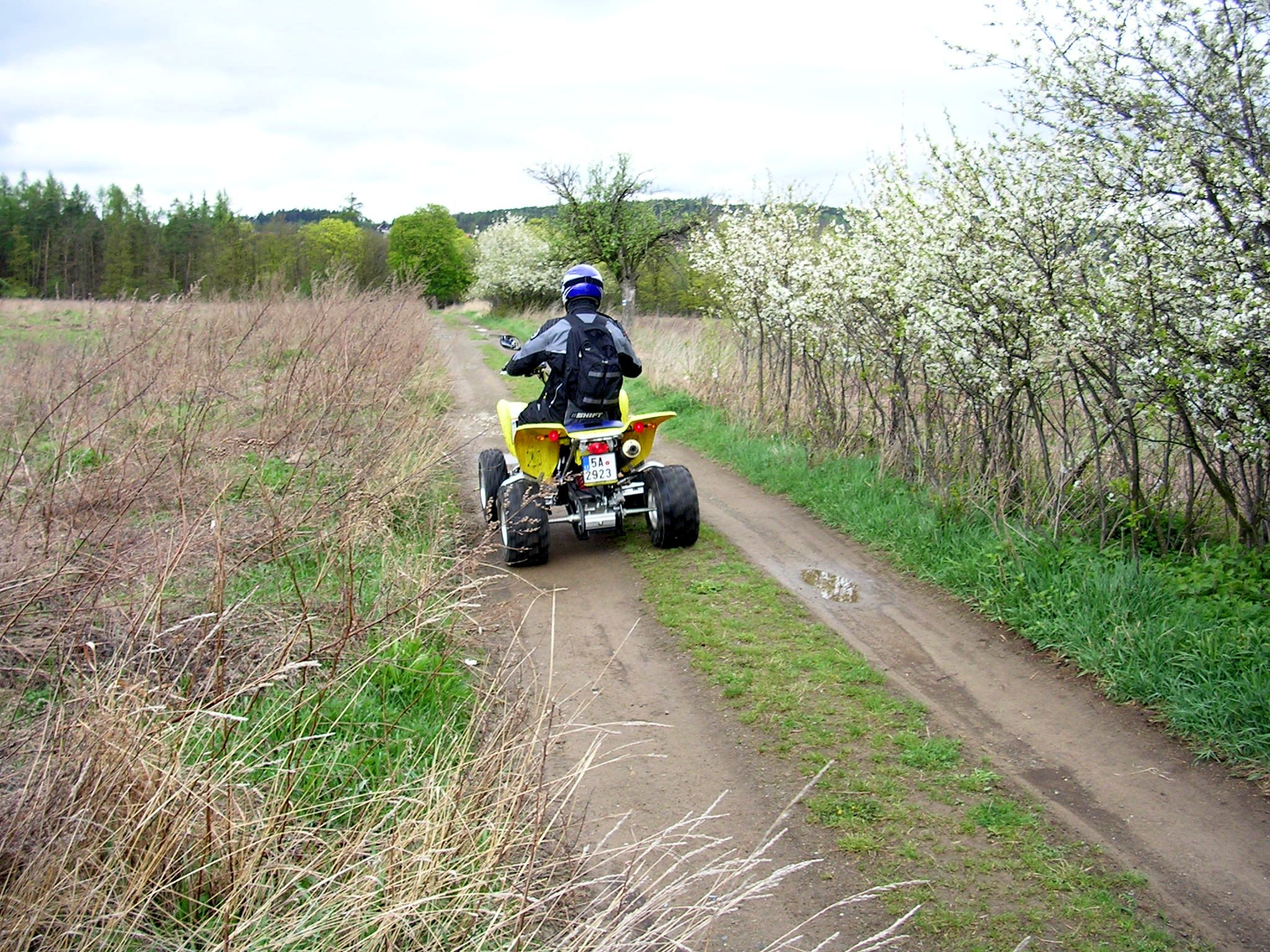 Trnová, Central Bohemian Region, the Czech Republic.